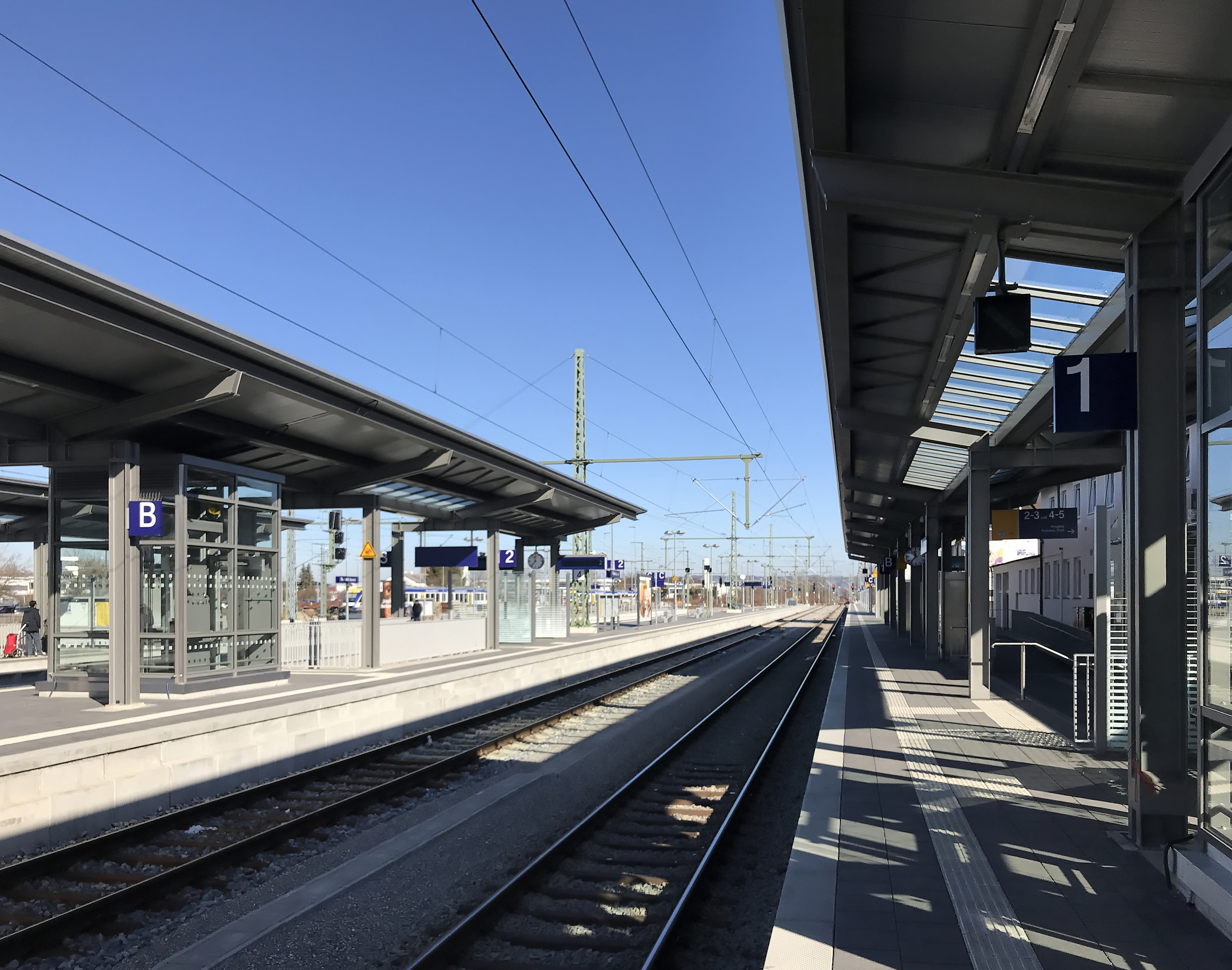 Railway station Weilheim (Upper Bavaria, Germany), February 2018